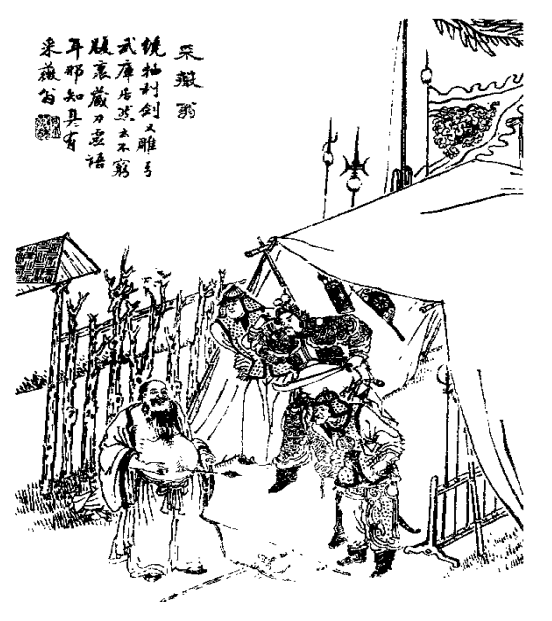 19th-century illustration of a scene from the short story "Cai Weiweng" collected in Strange Tales from a Chinese Studio (1740).